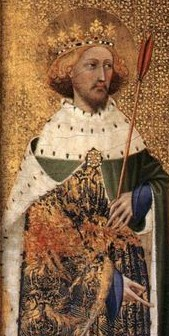 Detail of Public Domain work